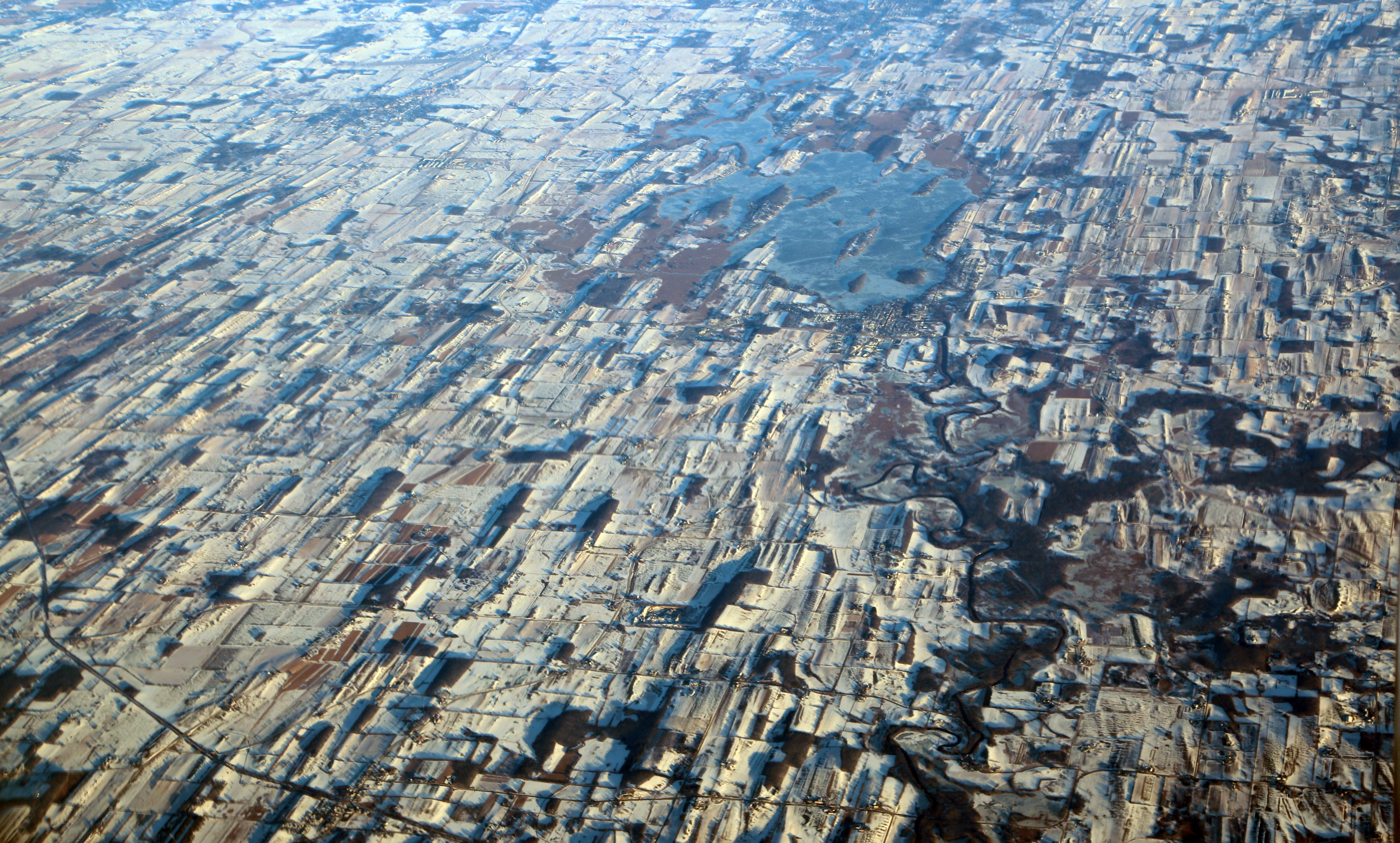 The highly grooved landscape south of Horicon Marsh in Wisconsin. The grooves are hills called drumlins, left by the retreating glacier about 12,000 years ago.